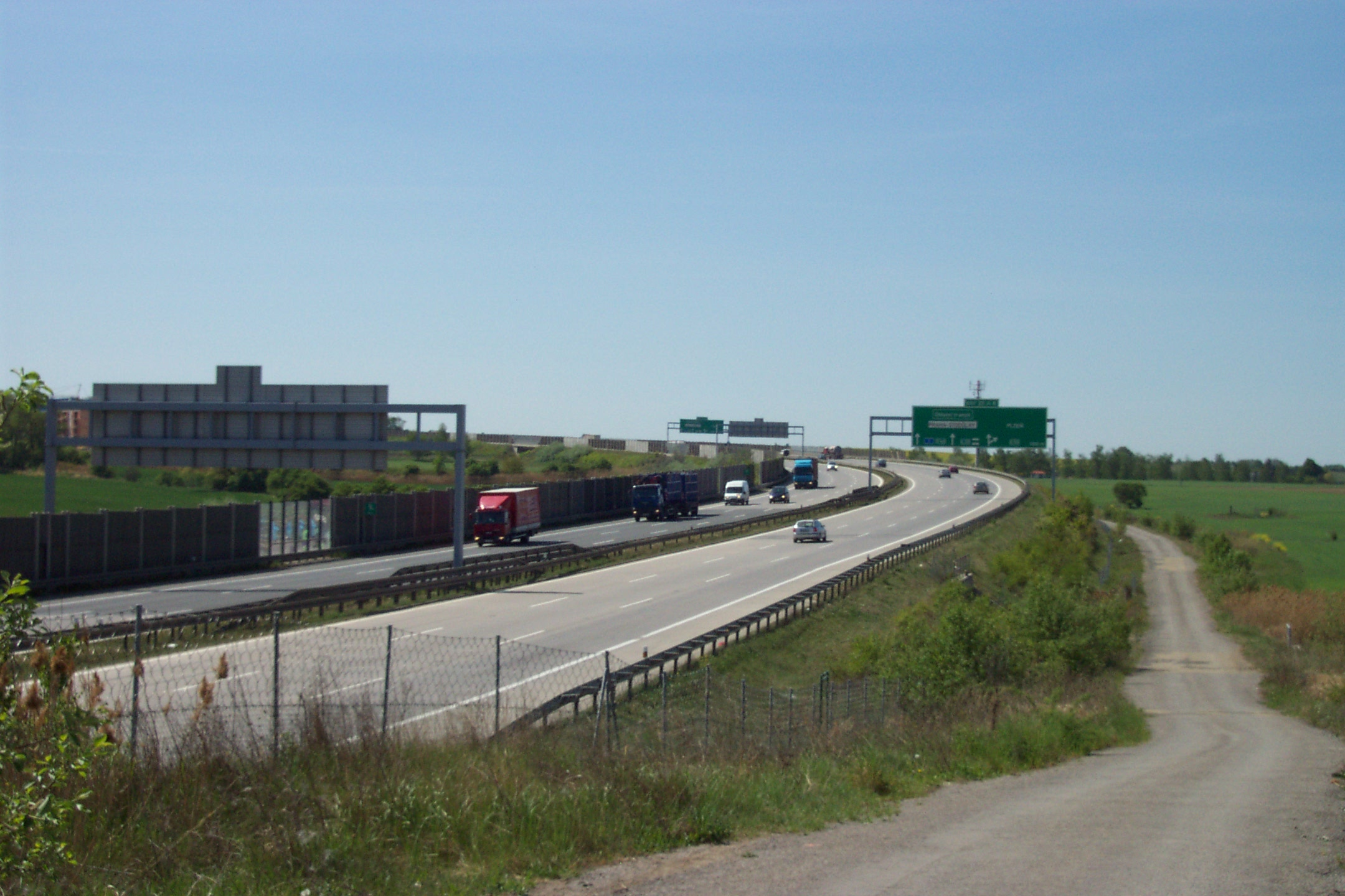 The Prague city Ring at Praha-Zličín